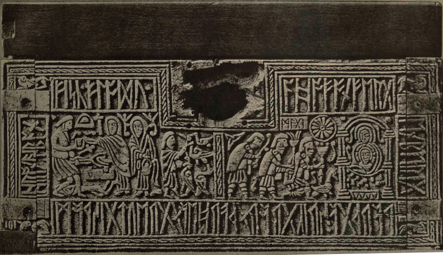 The front panel of the Franks Casket.